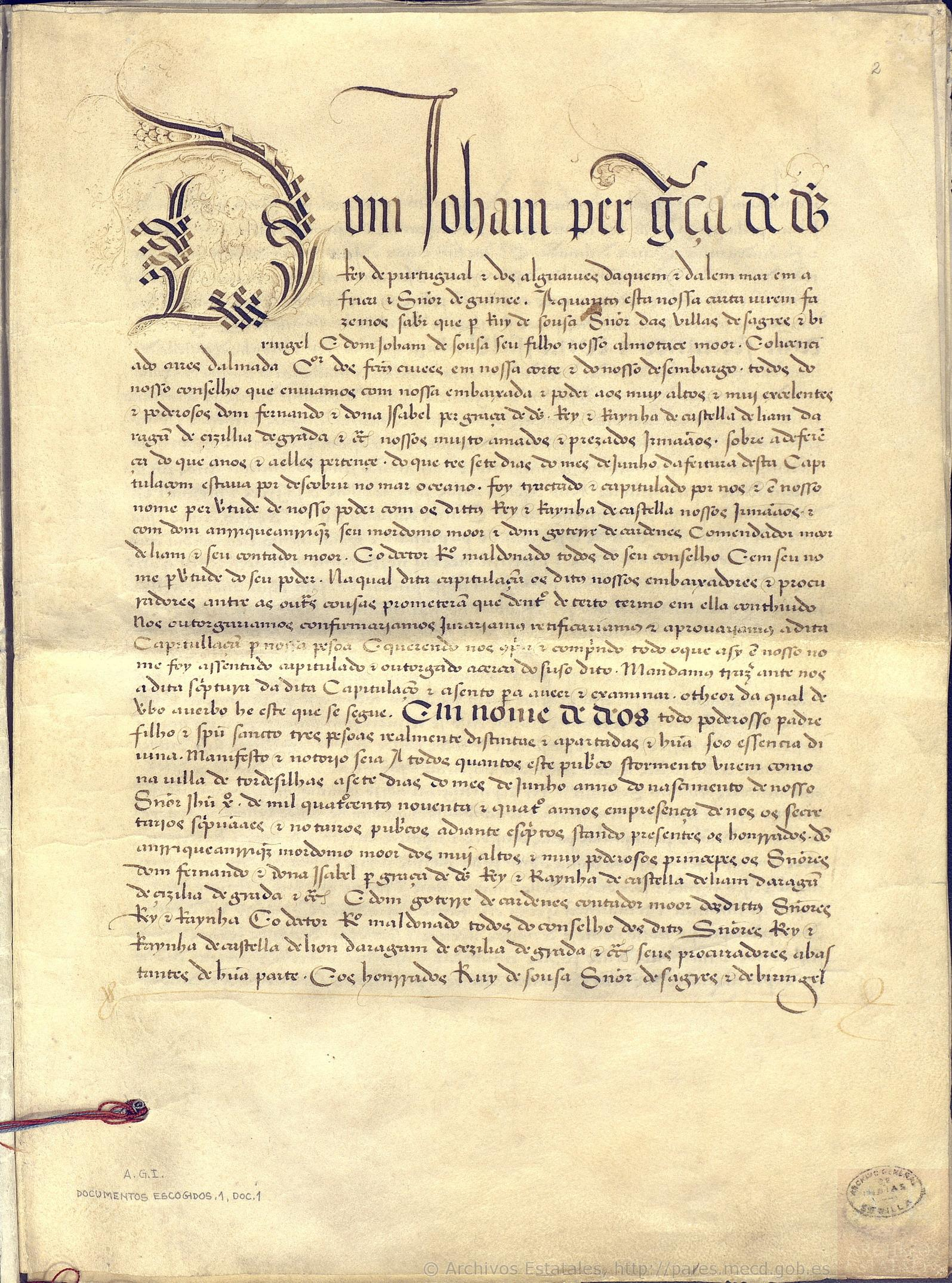 Original page from the Treaty of Tordesillas.